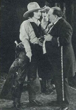 Still from the 1922 film Two Kinds of Women (1922) with Pauline Frederick, on page 125 of the April 1922 Dramatic Mirror.